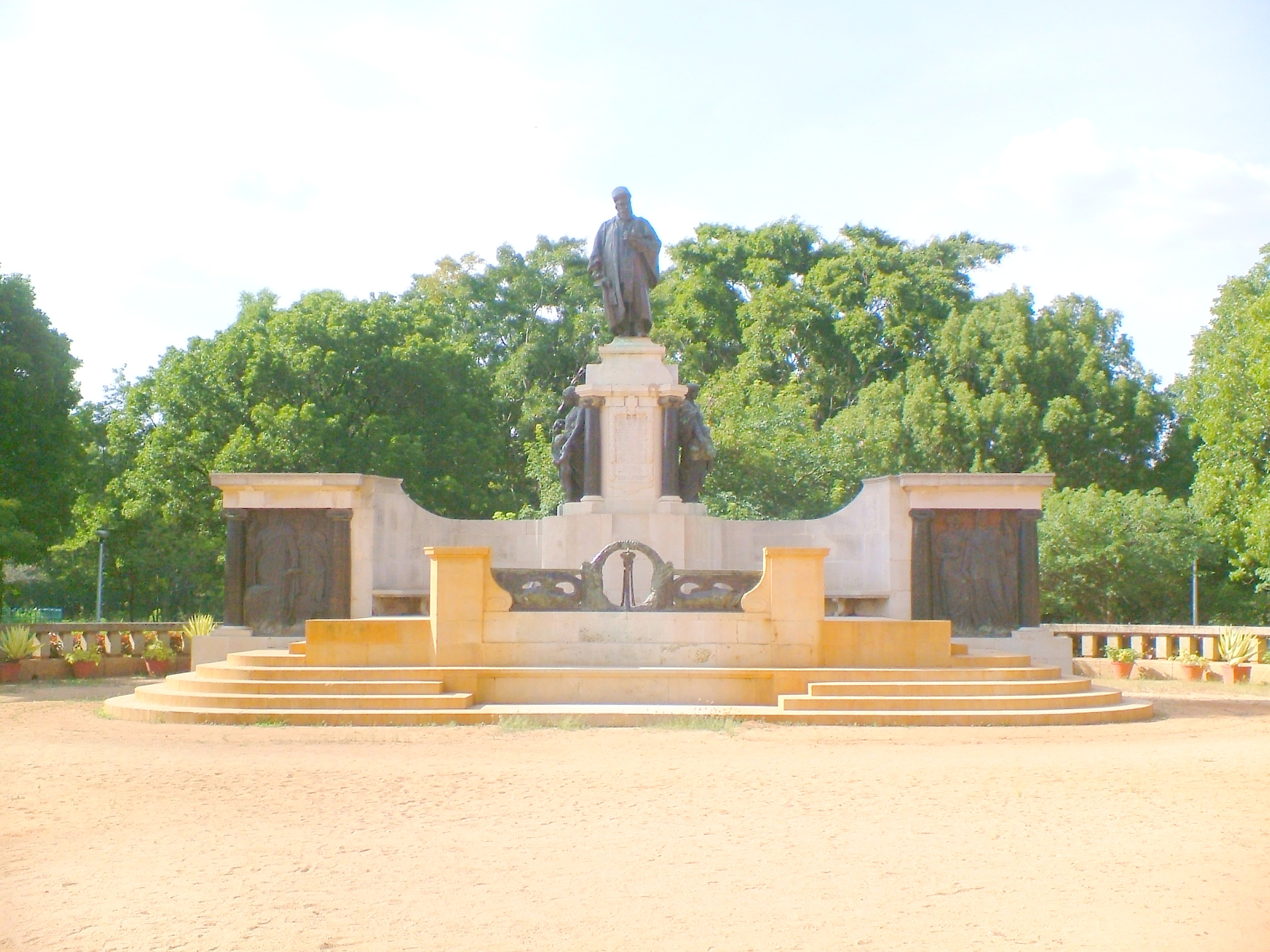 JN Statue